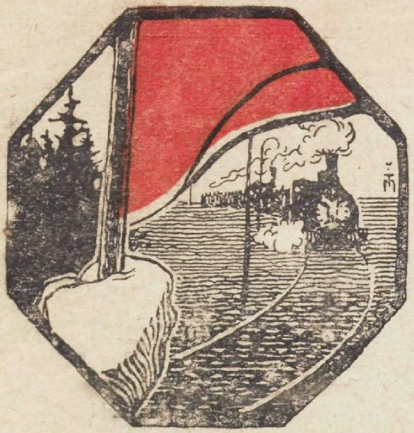 Logo of Signal Magazine (1905).